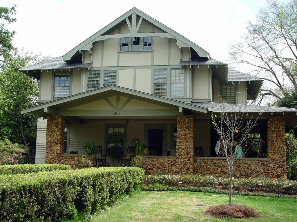 Beautiful Craftsman-style bungalow.